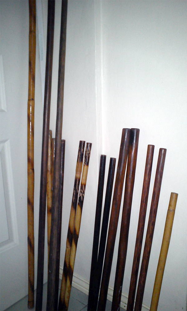 Various rattan, kamagong and bahi poles and bastons.